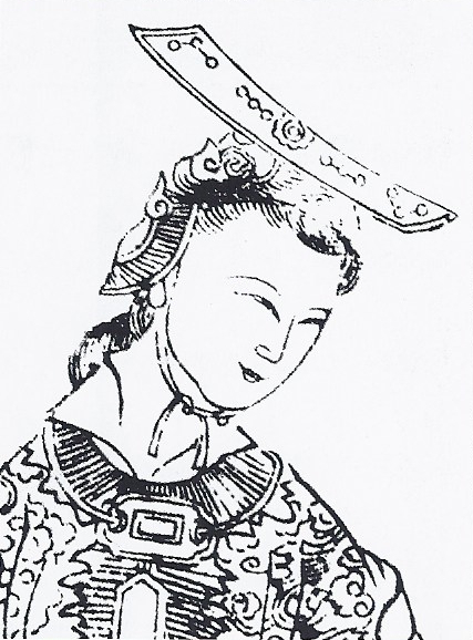 A 17th-century Chinese depiction of Wu, from Empress Wu of the Zhou, published c.1690.